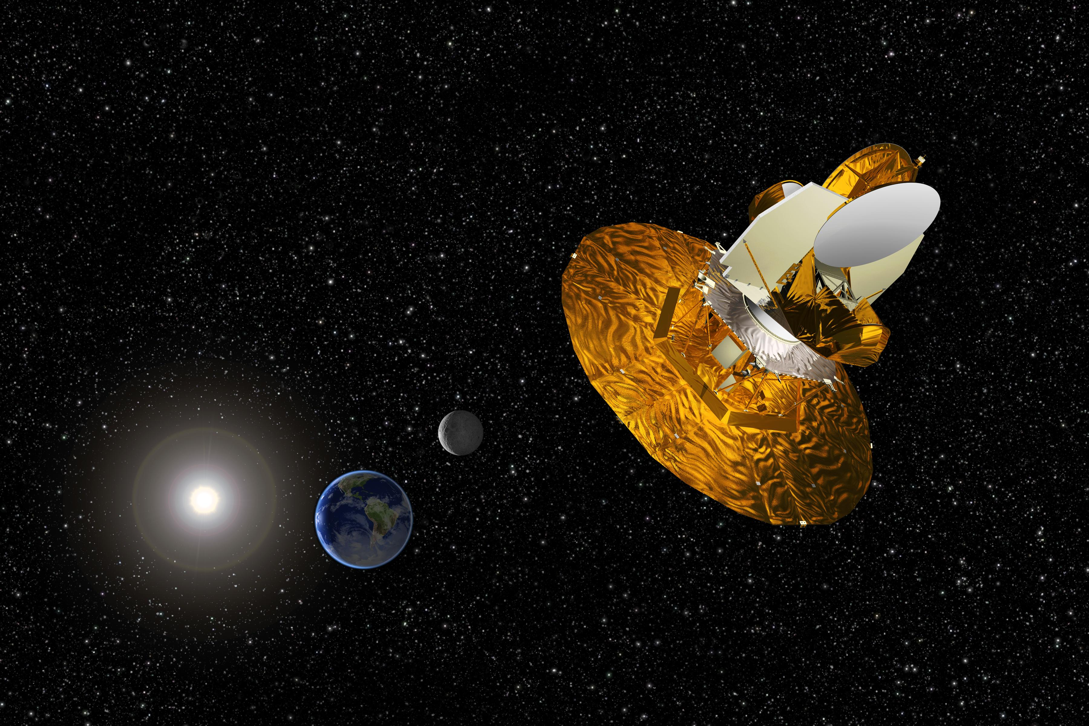 WMAP satellite artist depiction from NASA